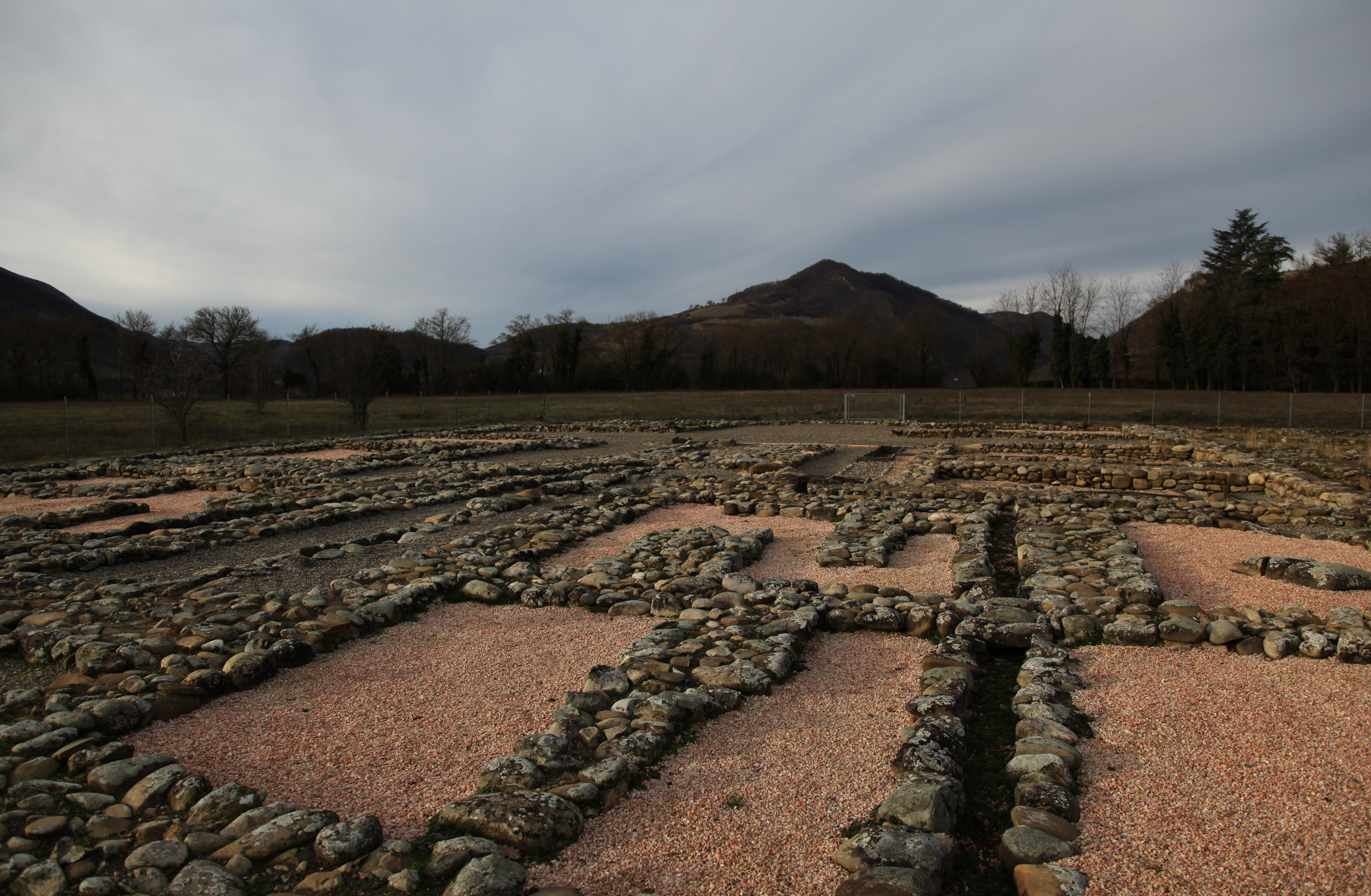 Etruscan city at Marzabotto. Foundations of the house nr 6 in the insula 1 of Regio IV. The internal of the house has been covered with coloured material to better visualize the house disposition. This is a photo of a monument which is part of cultural heritage of Italy.